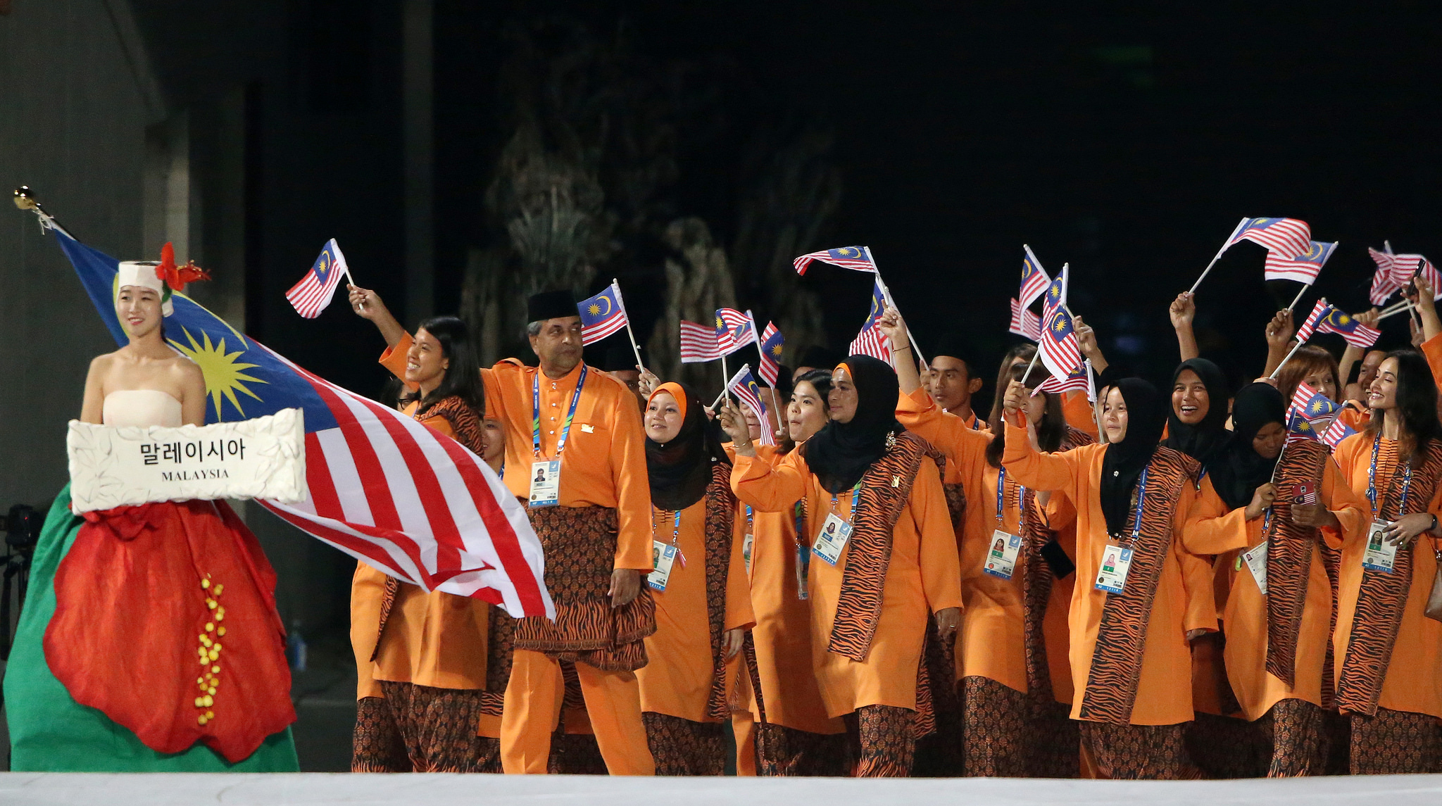 2014 Asian Games opening ceremony